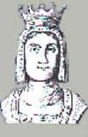 Adele of Champagne, Queen Consort of France